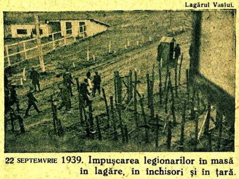 22 septembrie 1939